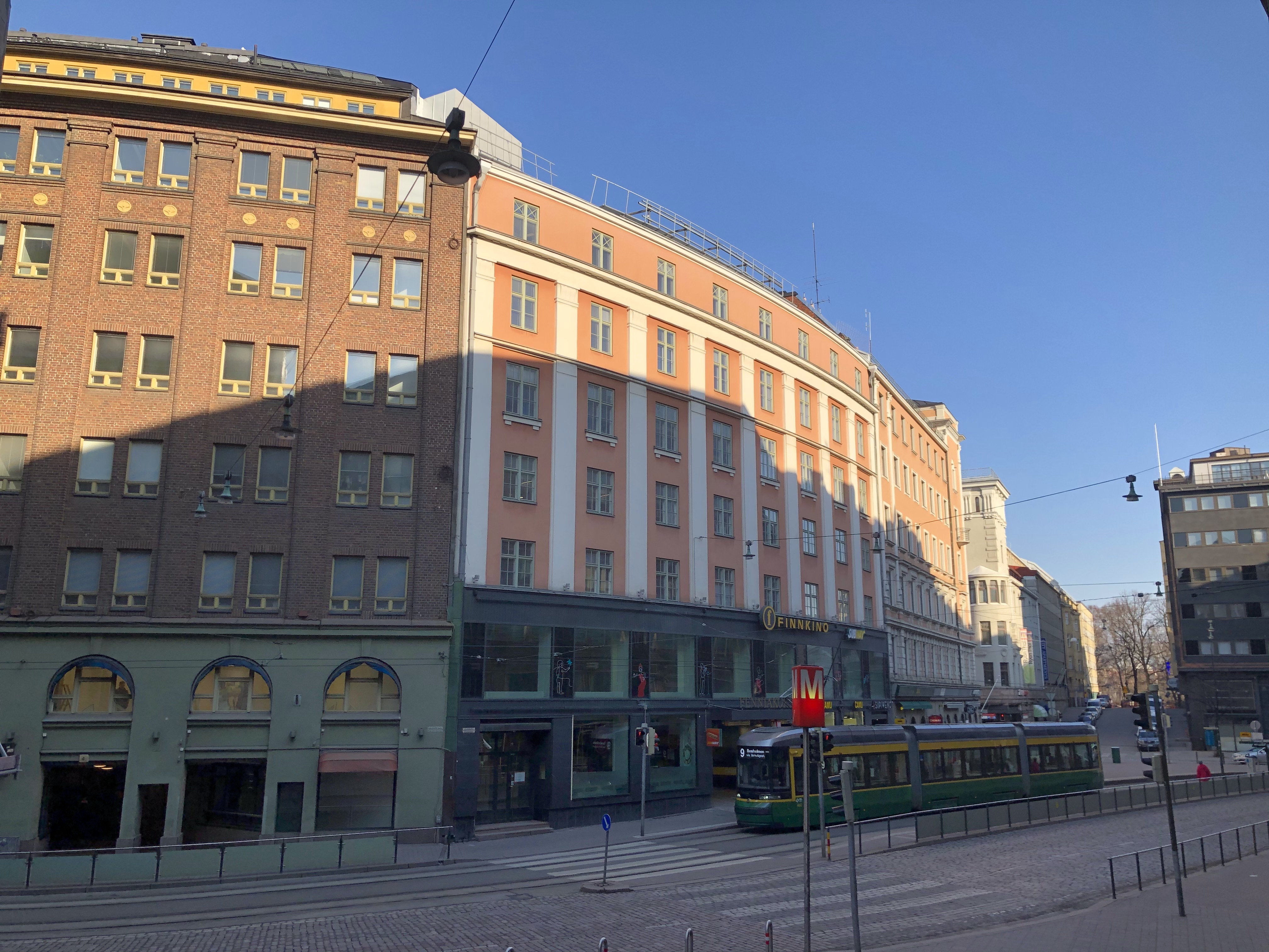 Kaisanimenkatu in April 2020.